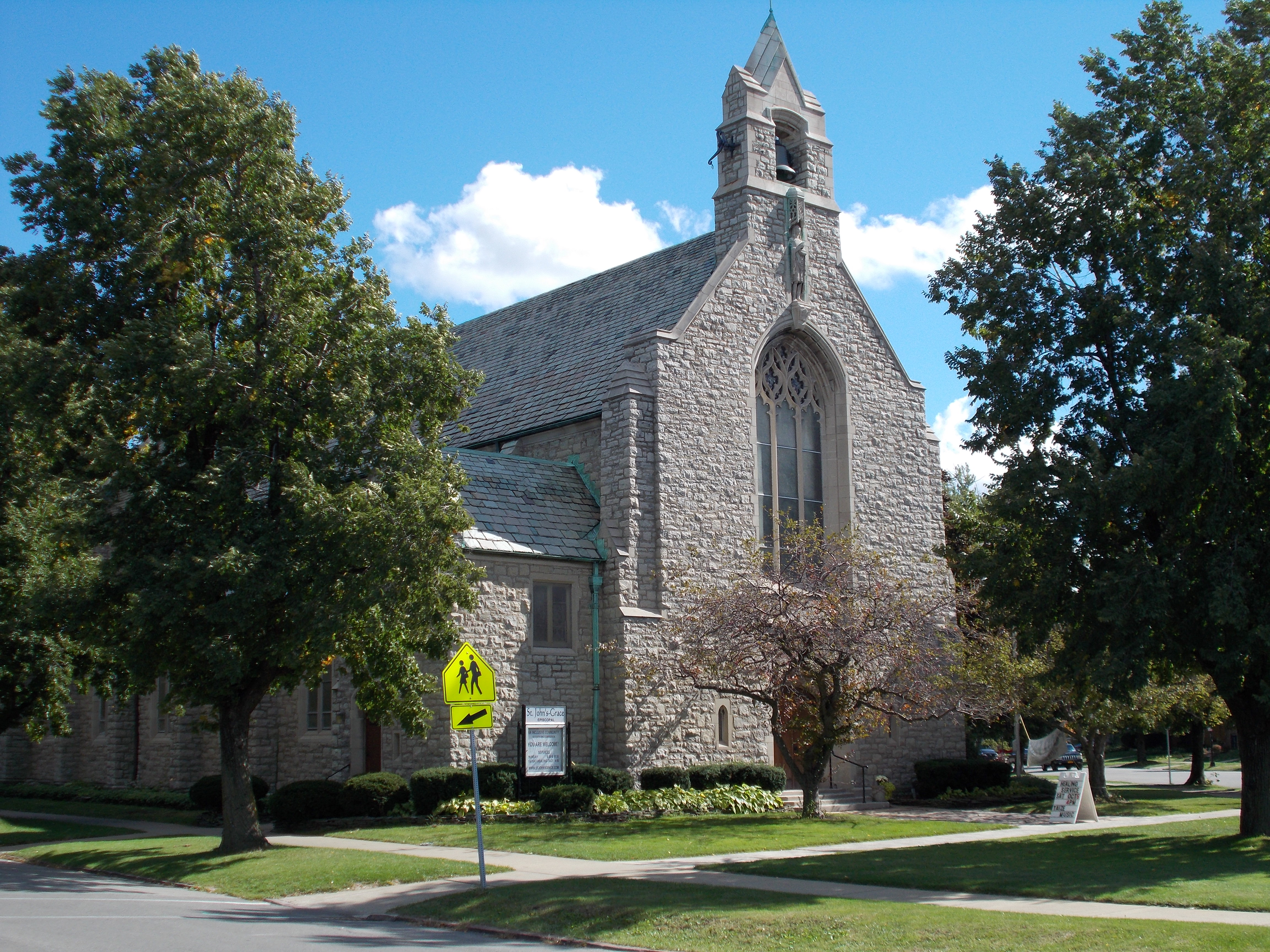 St. John's-Grace Episcopal on Colonial Circle, Buffalo, NY, September 2012